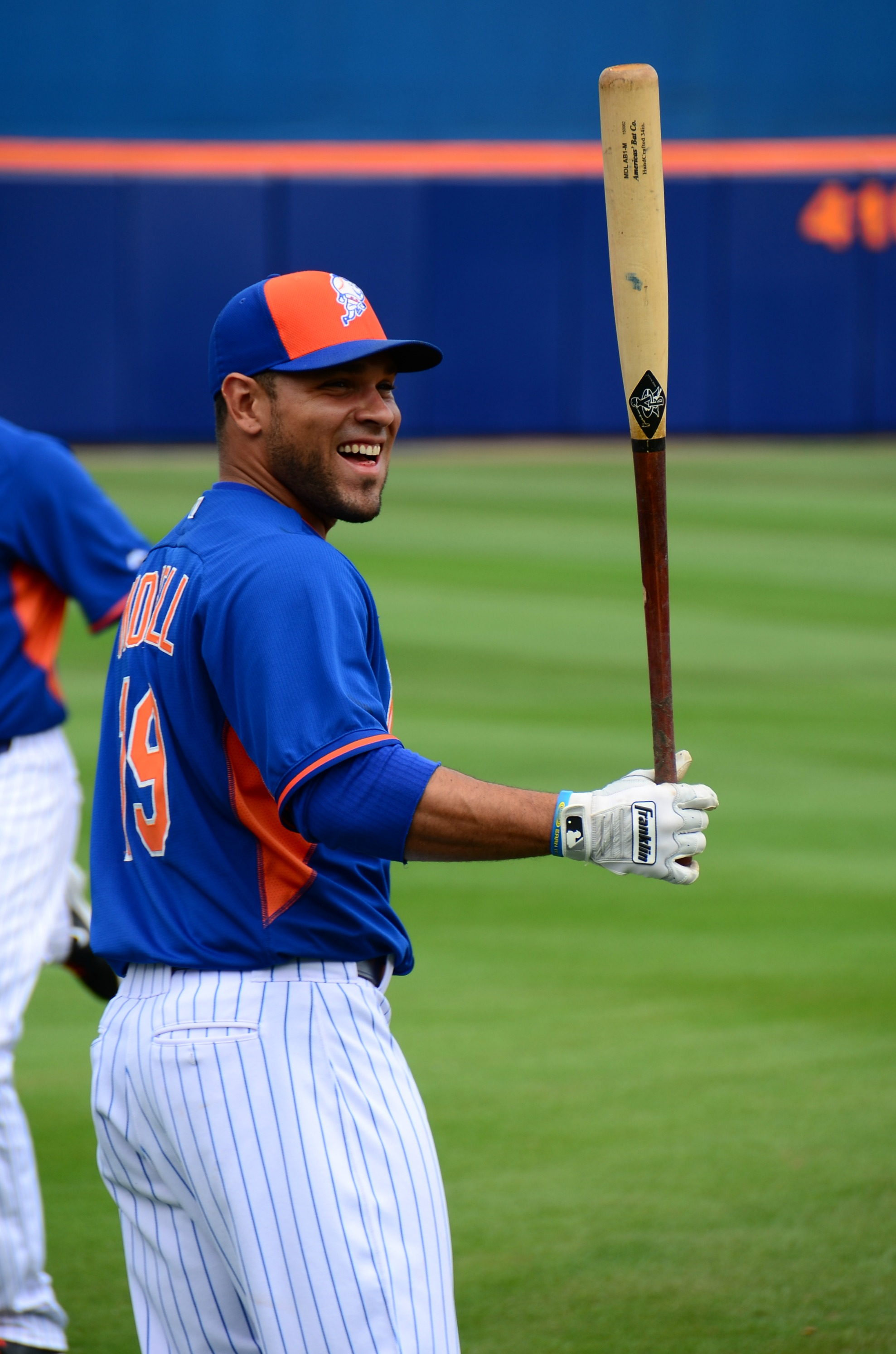 Johnny Monell